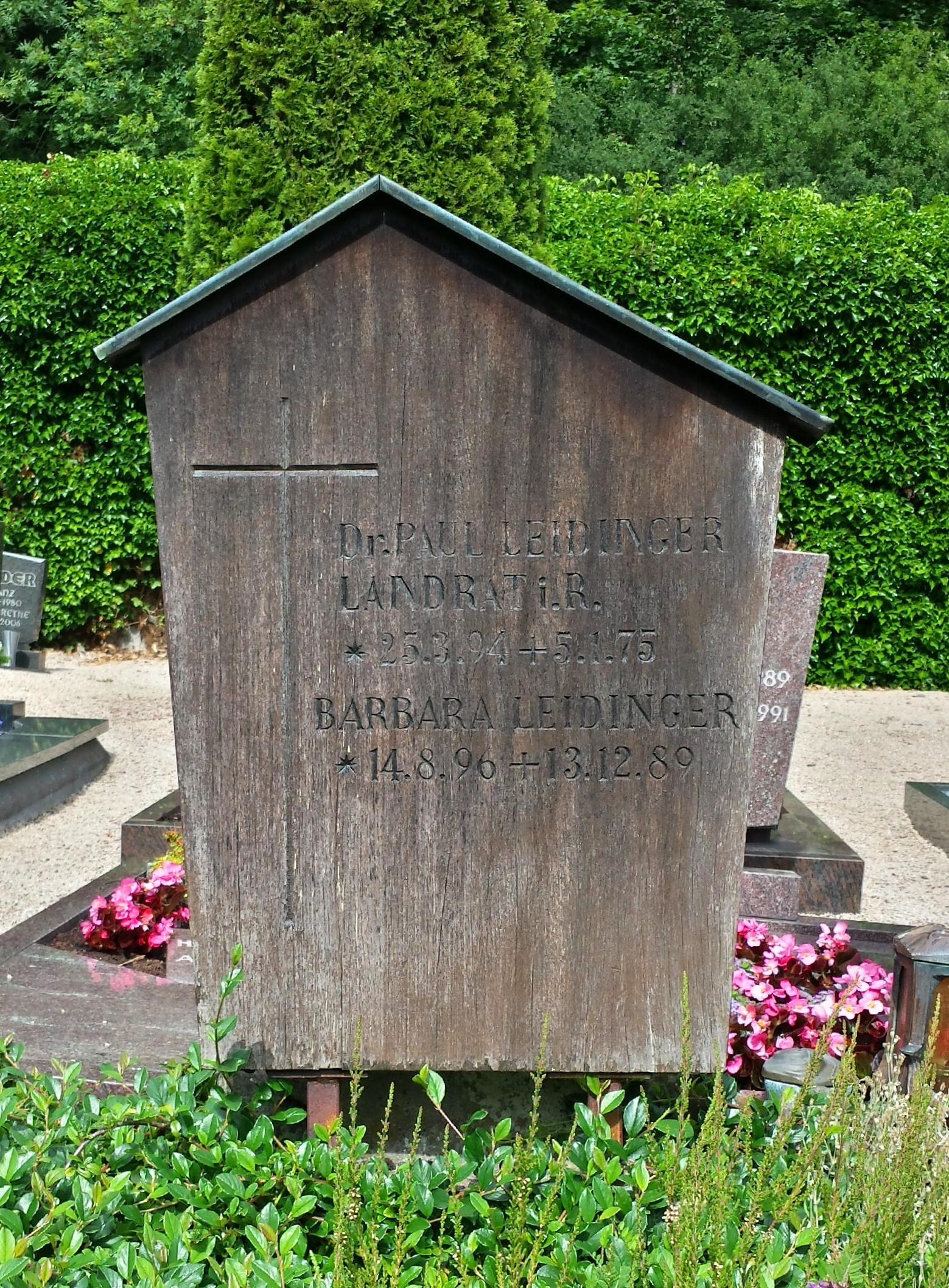 Grave of Dr Paul and Barbara Leidinger in Adenau